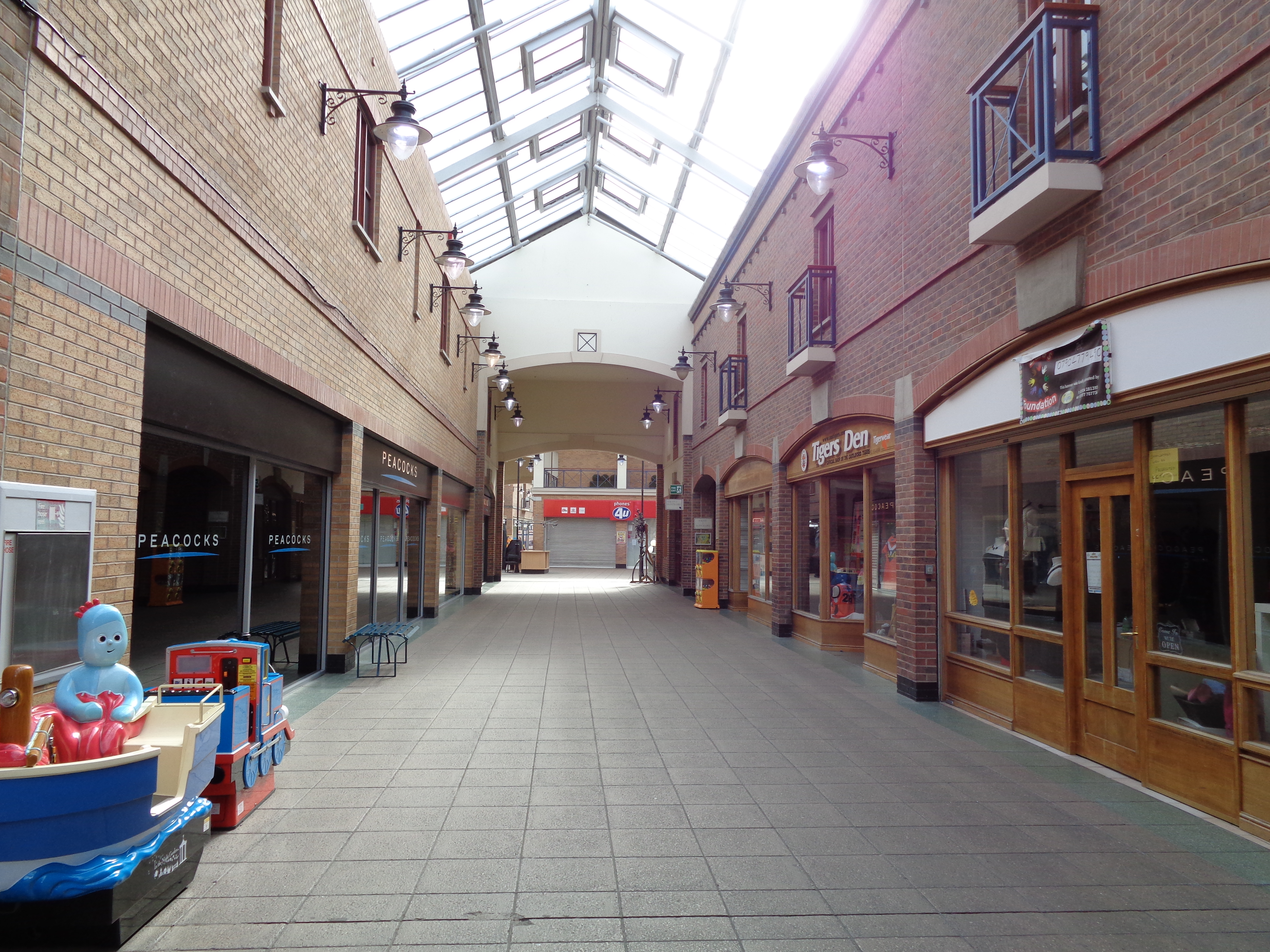 Carlton Lanes shopping centre, Castleford, West Yorkshire. Taken on the afternoon of Tuesday the 7th of July 2015.